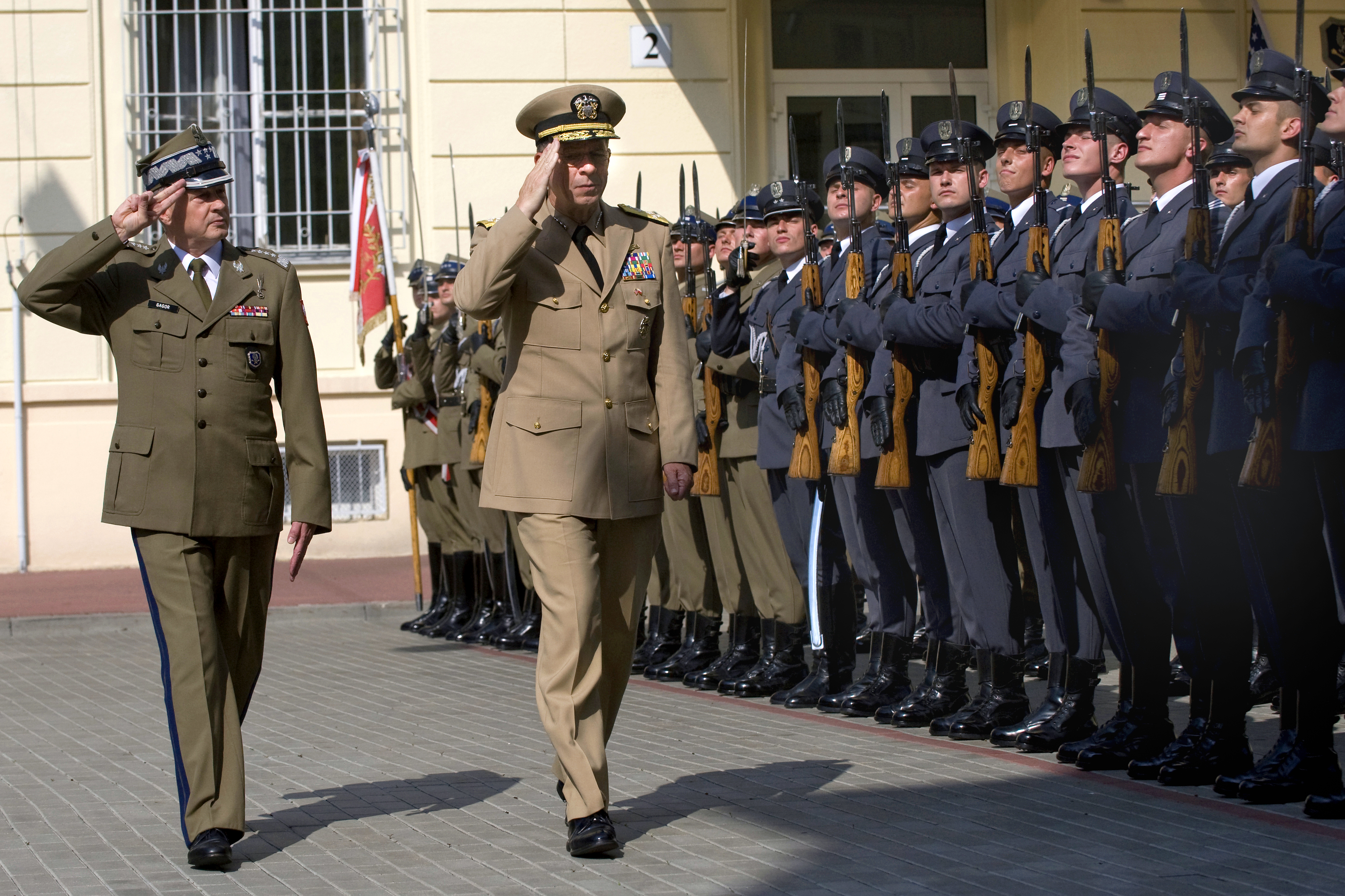 U.S. Navy Adm. Mike Mullen, chairman of the Joint Chiefs of Staff, is welcomed to Warsaw, Poland, by Gen. Franciszek Gagor, chief of the General Staff of the Polish Armed Forces, with a full-honors ceremony, June 29, 2009. Mullen is concluding a six-day trip to Europe visiting defense counterparts in Russia and Poland by attending the U.S. European Command change-of-command ceremony in Stuttgart, Germany.